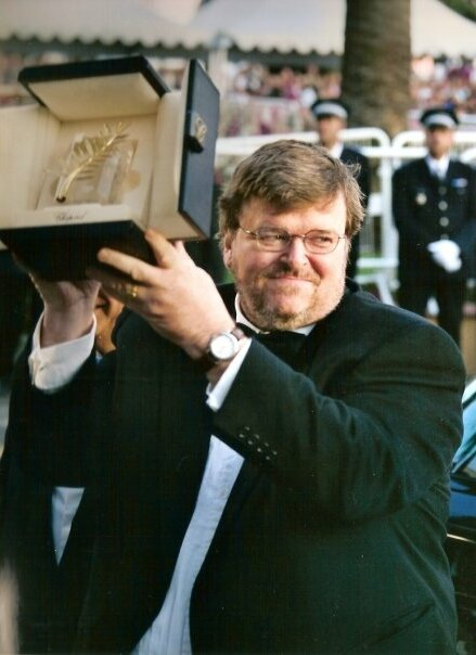 Michael Moore receiving the Palme d'or at the Cannes film festival, for "Farenheit 9/11"